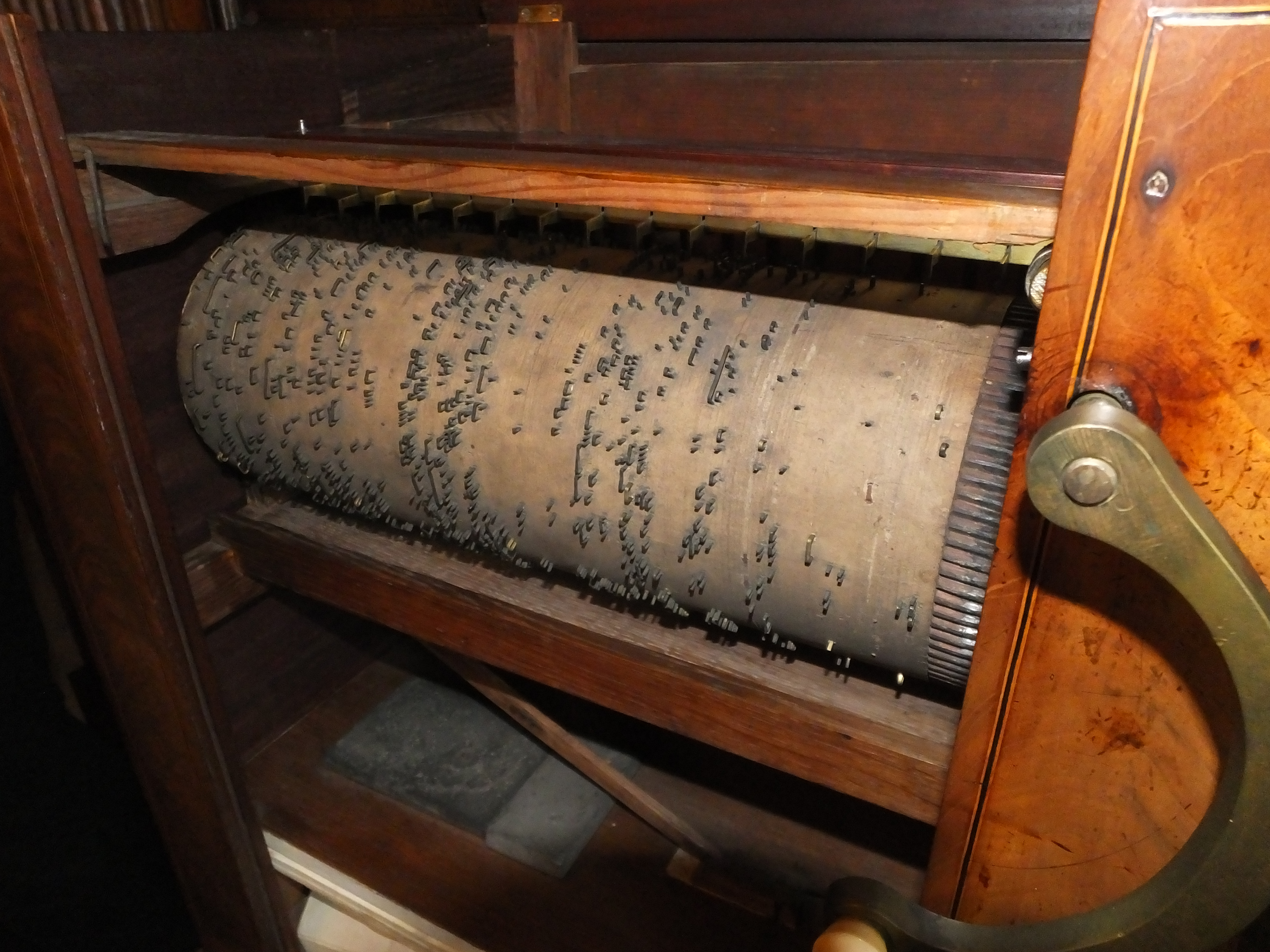 Taken during the tour and editathon at the Judges' Lodgings, Lancaster. The barrel organ